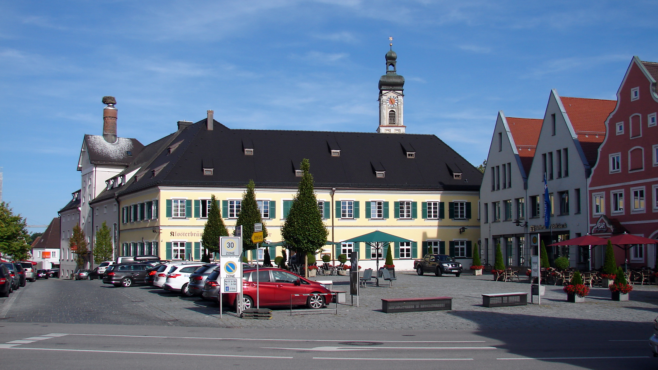 City square in Geisenfeld, Bavaria, Germany